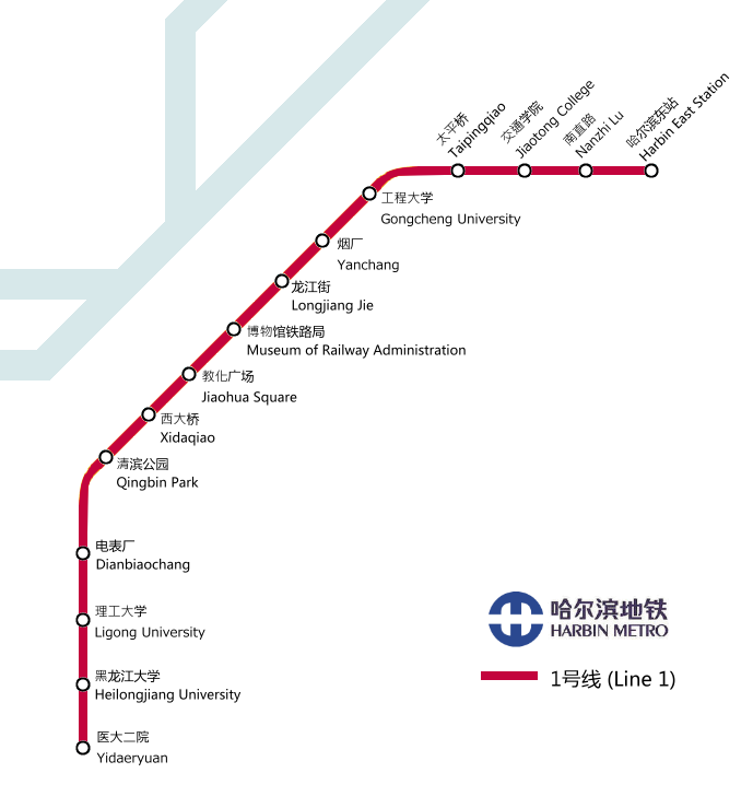 Map of Harbin Metro.